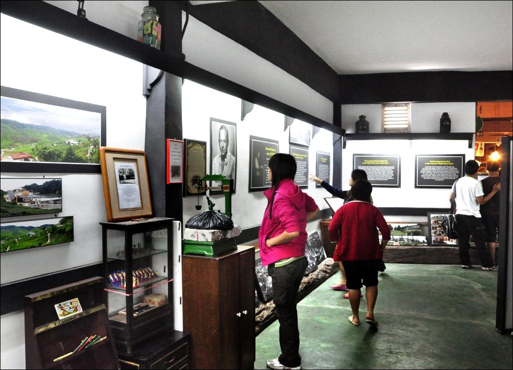 The TIME TUNNEL museum is located within the Kok Lim Strawberry Farm, UT/MR/F-255, Jalan Sungei Burung, 39100, Brinchang, the Cameron Highlands, Pahang, West Malaysia.